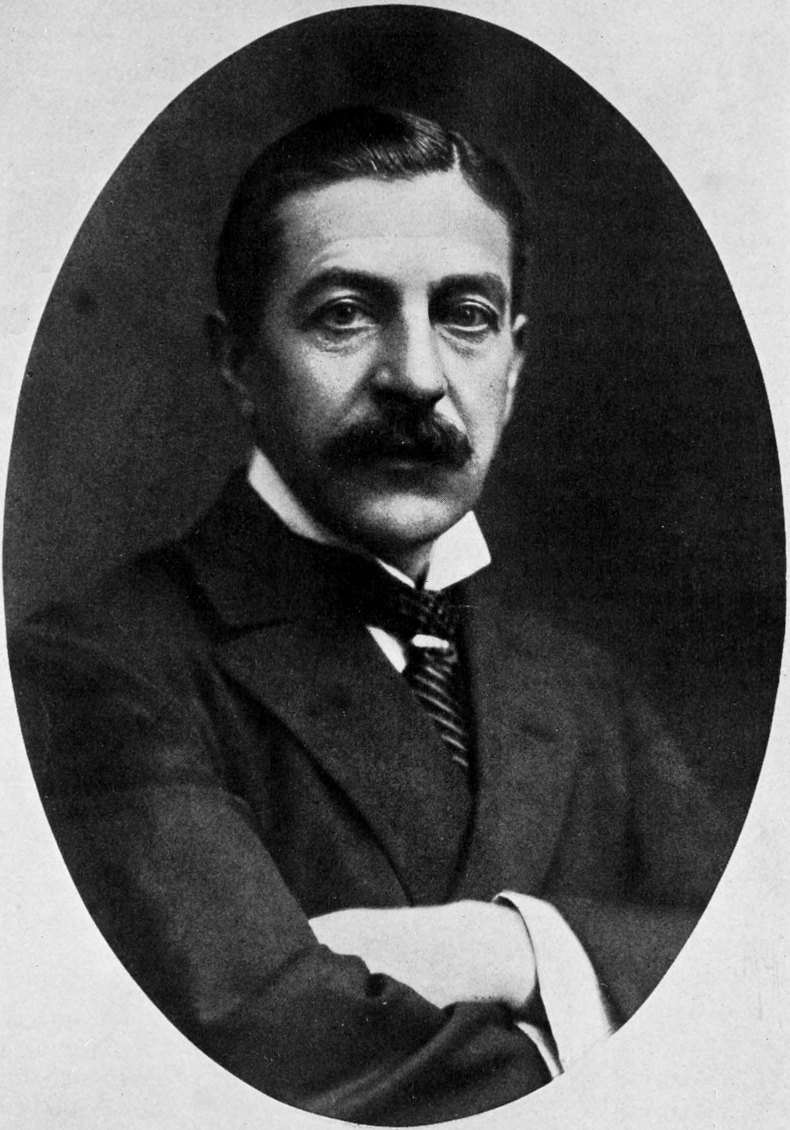 Portrait photograph of New York City banker James Speyer